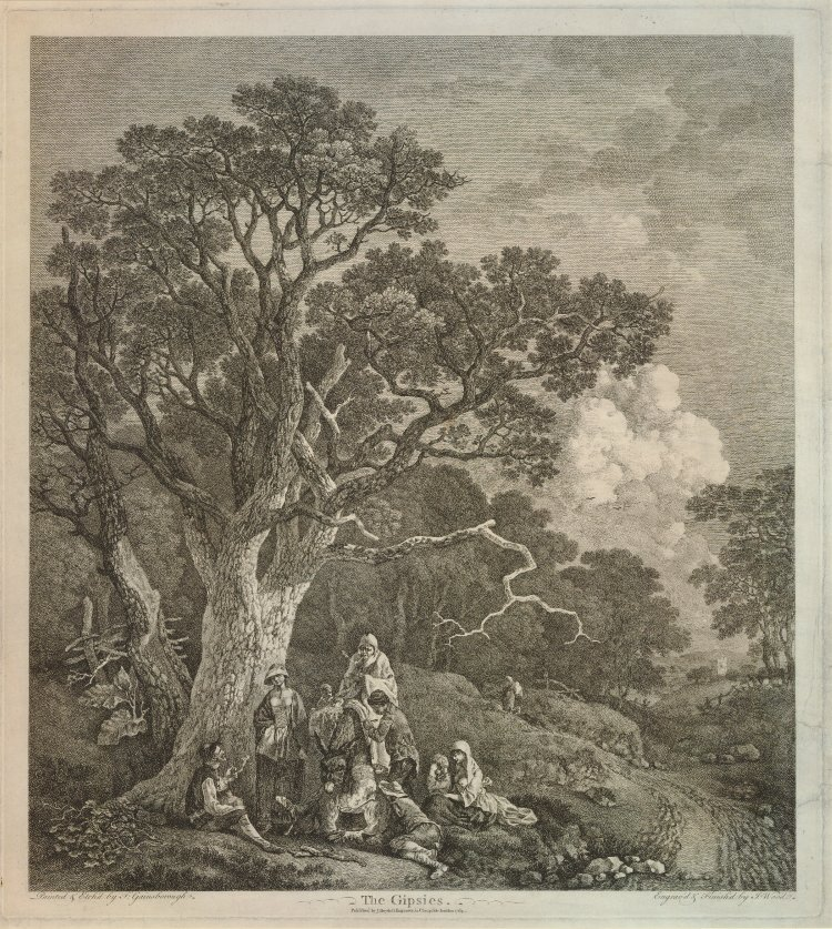 Landscape with group of gipsy men, women and children around figure beside tree, one sitting on donkey, path leading away at r; republished state 1764, the first version begun in 1753-4. 1759 Etching. Lettered with title and production and publication detail, below image: "Painted & Etch'd by T. Gainsborough", "Engrav'd & Finish'd by J. Wood" and "Published by J. Boydell, Engraver, in Cheapside London 1764."